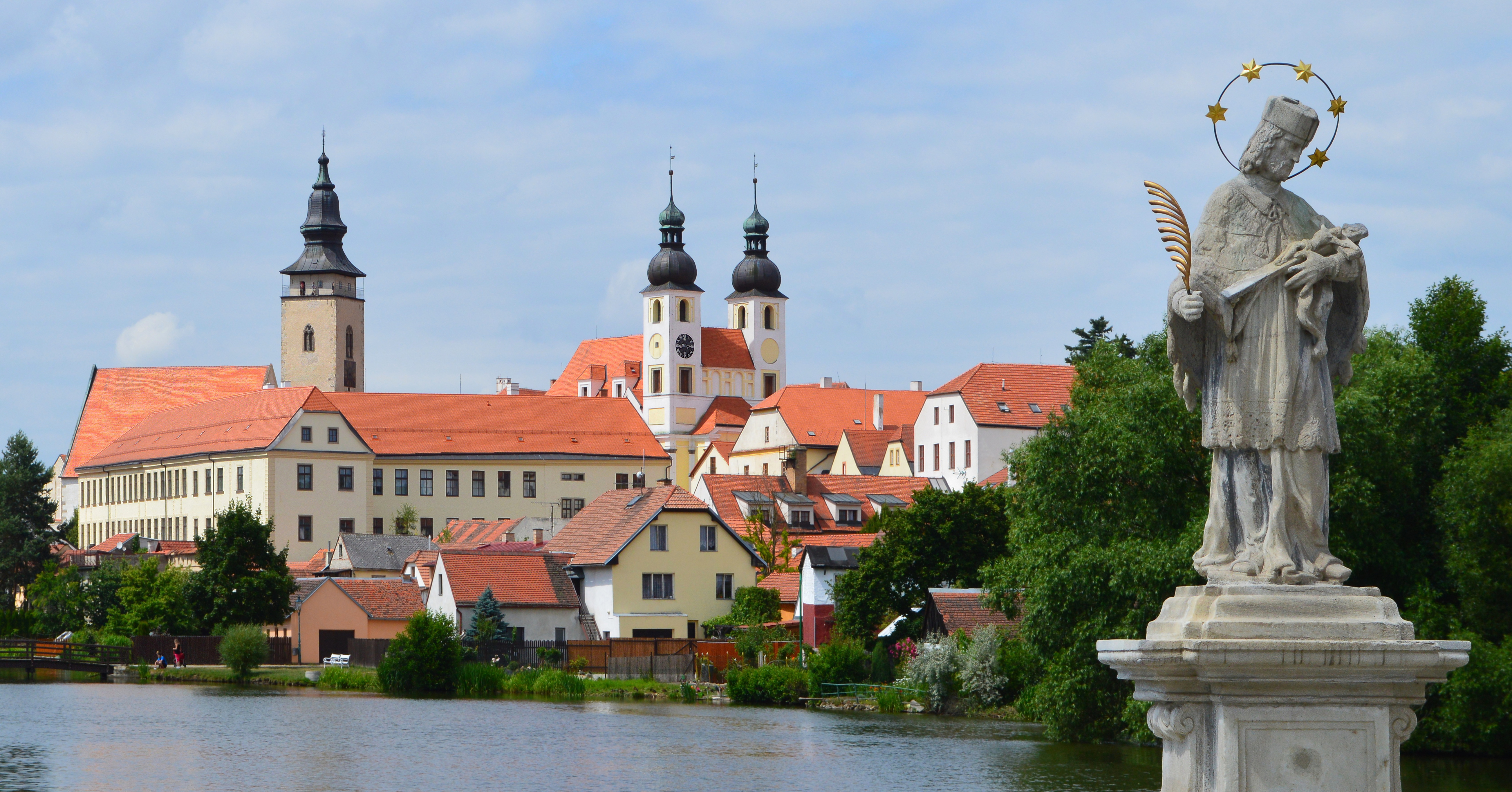 Telč is a town in southern Moravia, near Jihlava in the Czech Republic, that was founded in the thirteenth century as a royal water fort on the crossroads of busy merchant routes between Bohemia, Moravia and Austria. The Gothic castle was built in the second half of the fourteenth century and at the end of the fifteenth century the castle fortifications were strengthened and a new gate-tower built. In the middle of the sixteenth century the medieval castle no longer satisfied Renaissance nobleman Zachariáš of Hradec, who had the castle altered in the Renaissance style. Besides the monumental Renaissance chateau, the most significant sight is the town square, a unique complex of long urban plaza with well-conserved Renaissance and Baroque houses boasting high gables and arcades - since 1992 all of this has been a UNESCO World Heritage Site. The column of the Virgin Mary and the fountain in the centre of the square date from the eighteenth century. The Scotch Mist Gallery contains many photographs of historic buildings, monuments and memorials of Poland and beyond.